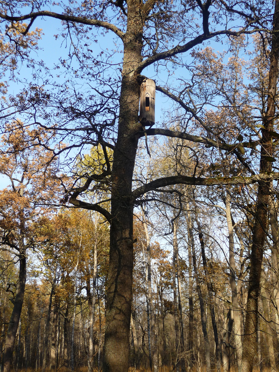 Bee-tree is on the oak, nearby Vydryca river, not far from Šacilki (Śvetlahorsk). Беларуская (тарашкевіца): Бортная калода на дубе ля ракі Выдрыца, што ля Шацілак (Сьвелагорска).